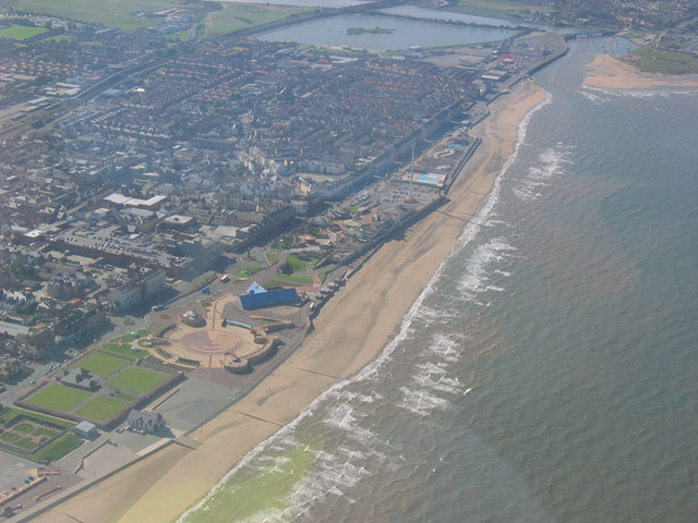 Rhyl Seafront Aerial photograph of Rhyl seafront